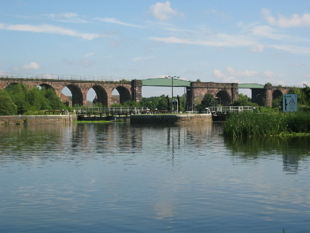 The locks, Northwich. The locks along the Weaver Navigation with the railway arches in the background.